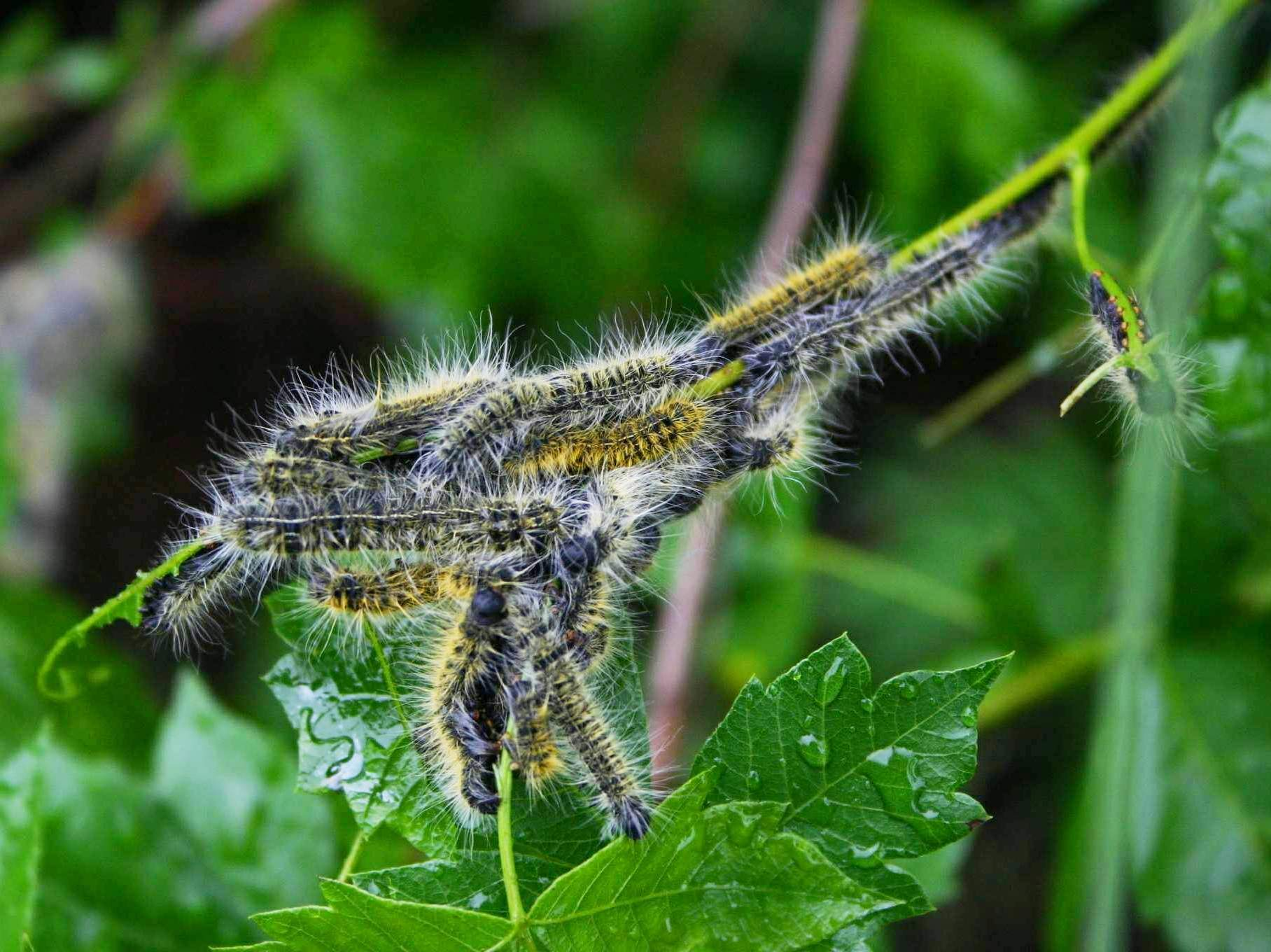 Larvae of Bombycomorpha bifascia feeding on Rhus dentata, Gauteng, South Africa